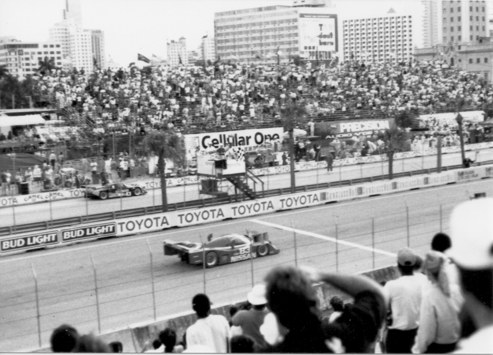 The race finish of the IMSA 1992 Miami Grand Prix by Geoff Brabham in the Nissan NPT-91. Photo taken with a Canon AE-1 camera, using a 135mm Samigon (FD-knockoff lens), and Kodak Tri-X film.